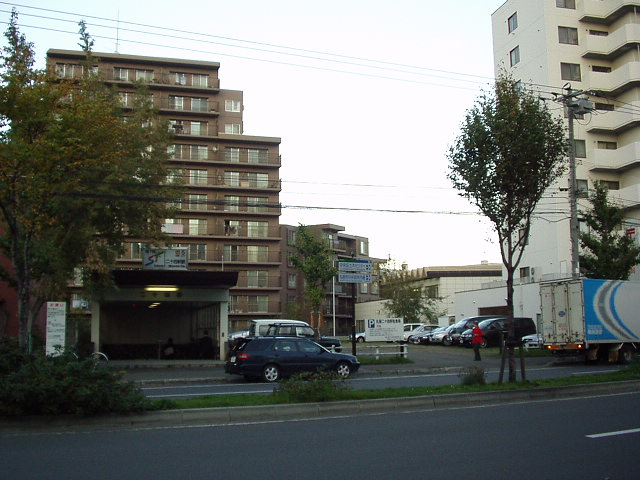 Nijūyonken Station of Sapporo Municipal Subway. Nijūyonken, Nishi (West) ward, Sapporo, Hokkaidō prefecture, Japan.